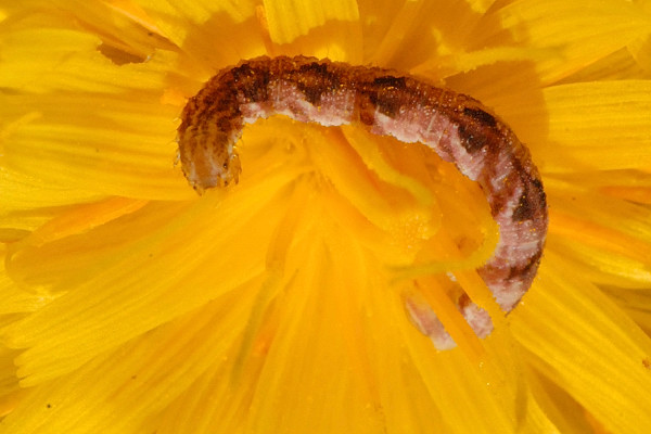 Eupithecia satyrata from Commanster, Belgian High Ardennes .